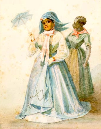 New Orleans, 1867. African American Creole woman in fashionable dress of the era and parasol, with another woman in working class clothing, possibly her servant.